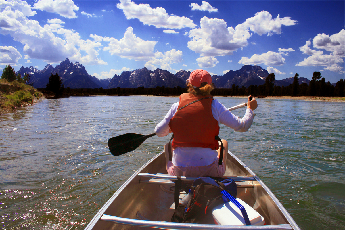 Canoë on the Snake RIver in Grand Teton national park, Wyoming, USA.